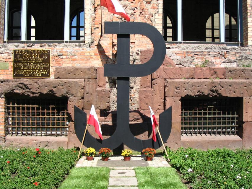 Kotwica, the symbol of the Armia Krajowa. See also Image:Flaga PPP.png for other example. User:Halibutt/Mozzerati